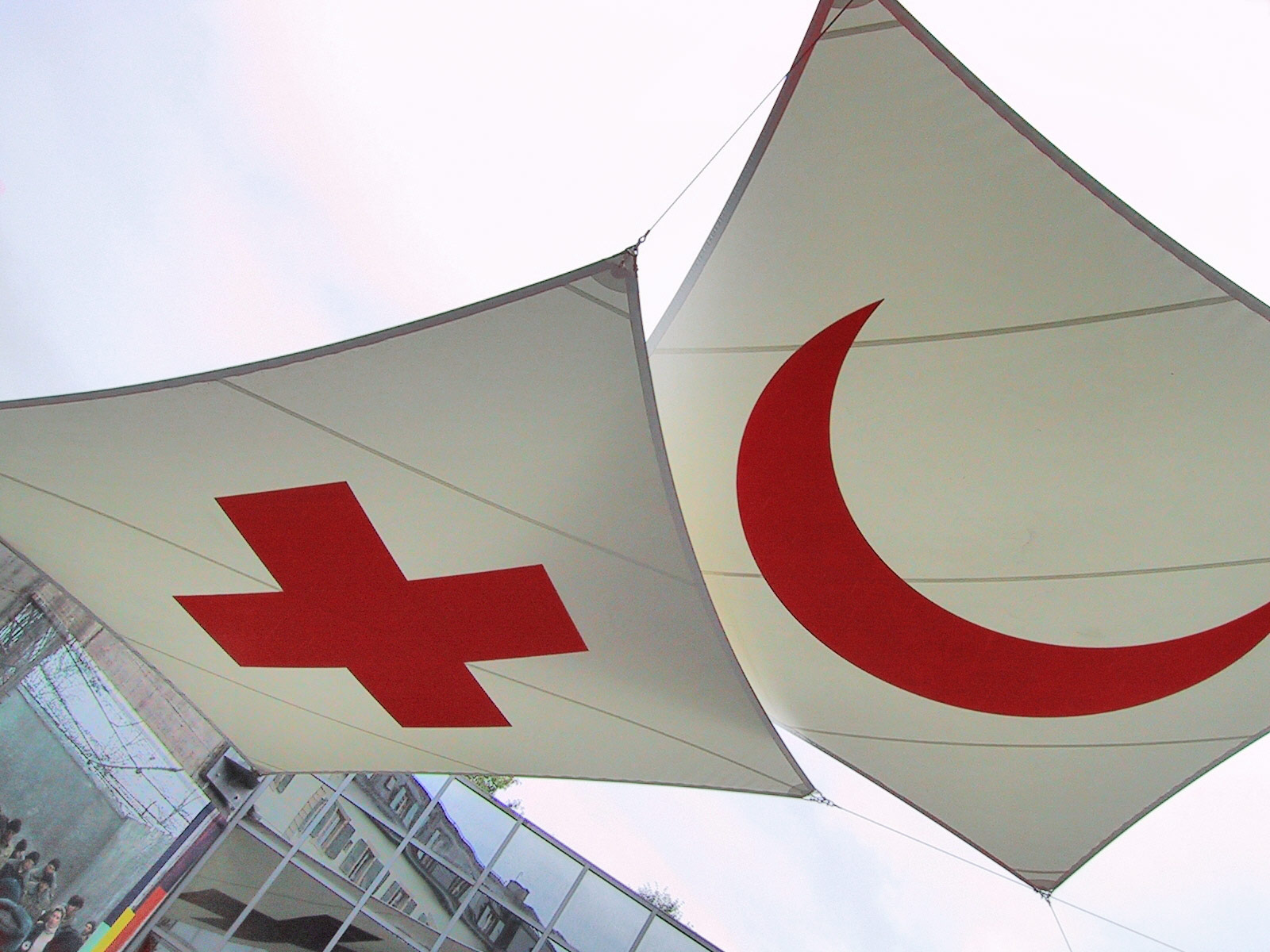 The Red Cross and the Red Crescent emblems at the museum in Geneva. Soon (2005/06), the Red Crystal emblem should join them.